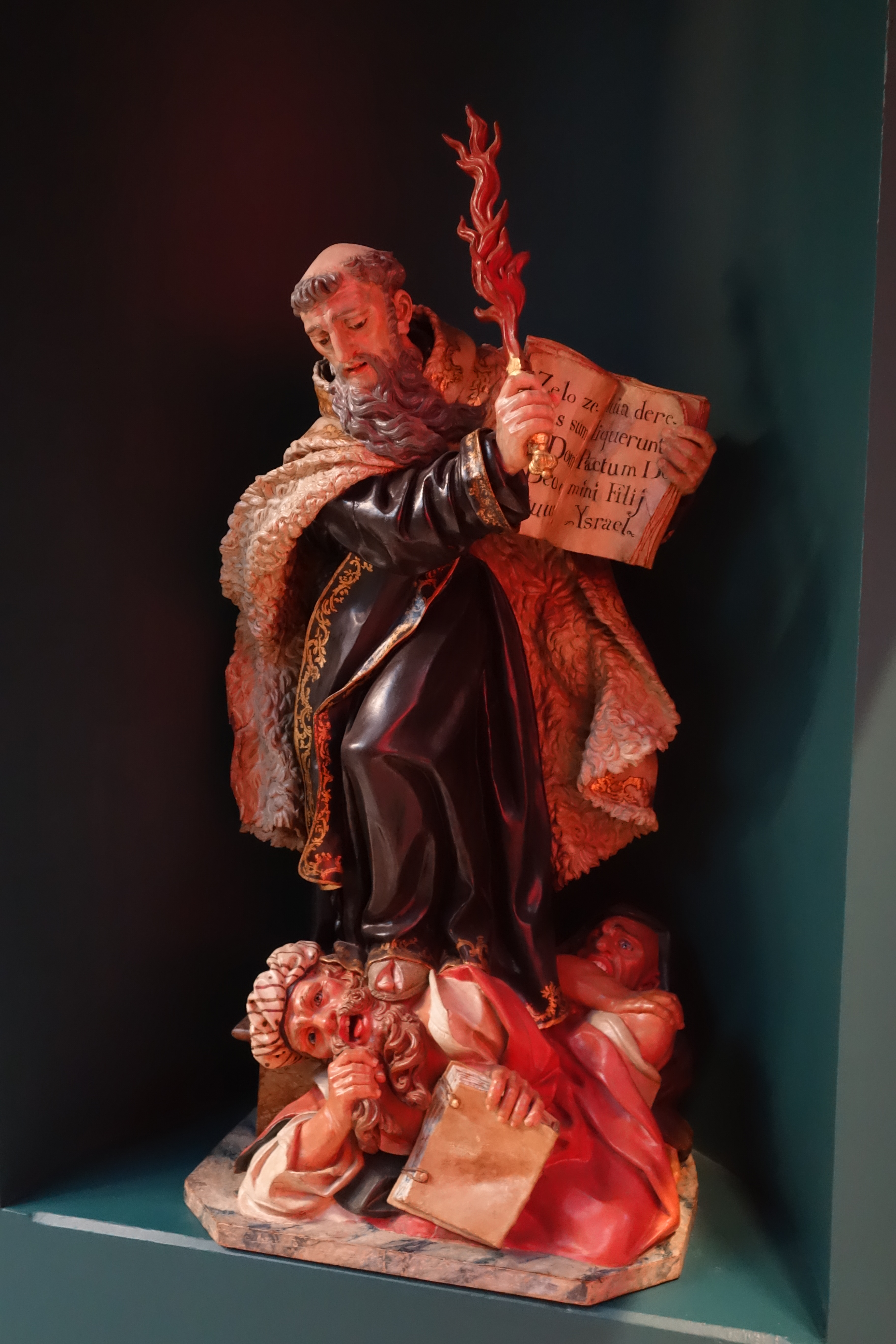 Juan Alonso Villabrille y Ron, The Prophet Elijah (National Gallery of Ireland)